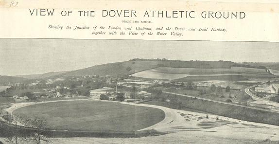 The Crabble, home of Dover Athletic F.C., pictured in 1897. From an original in the Dover Museum, found on this website but believed to be in the public domain due to great age